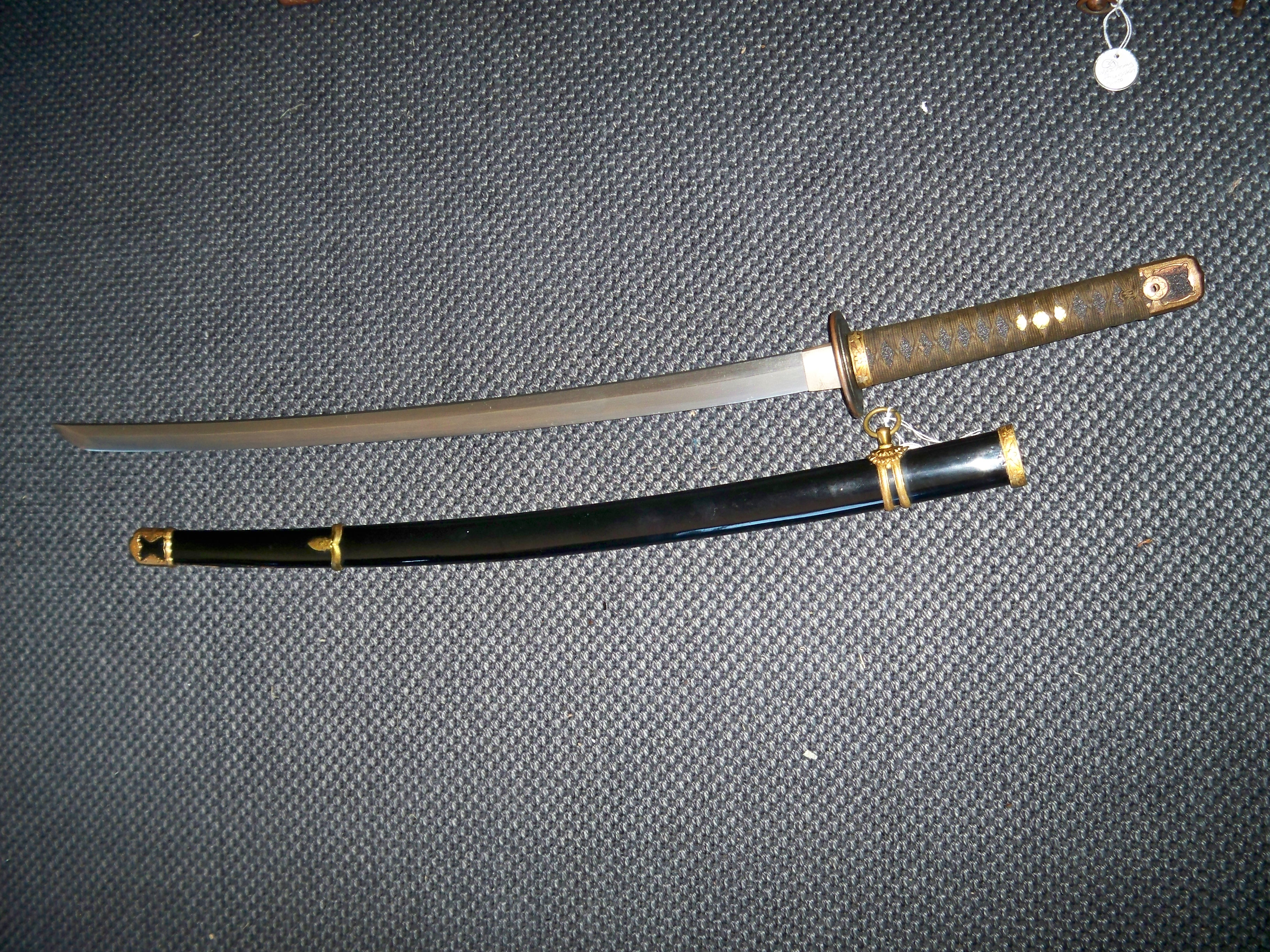 World War II Japanese navel officers katana kai gunto, manufactured from stainless steel to prevent rust.